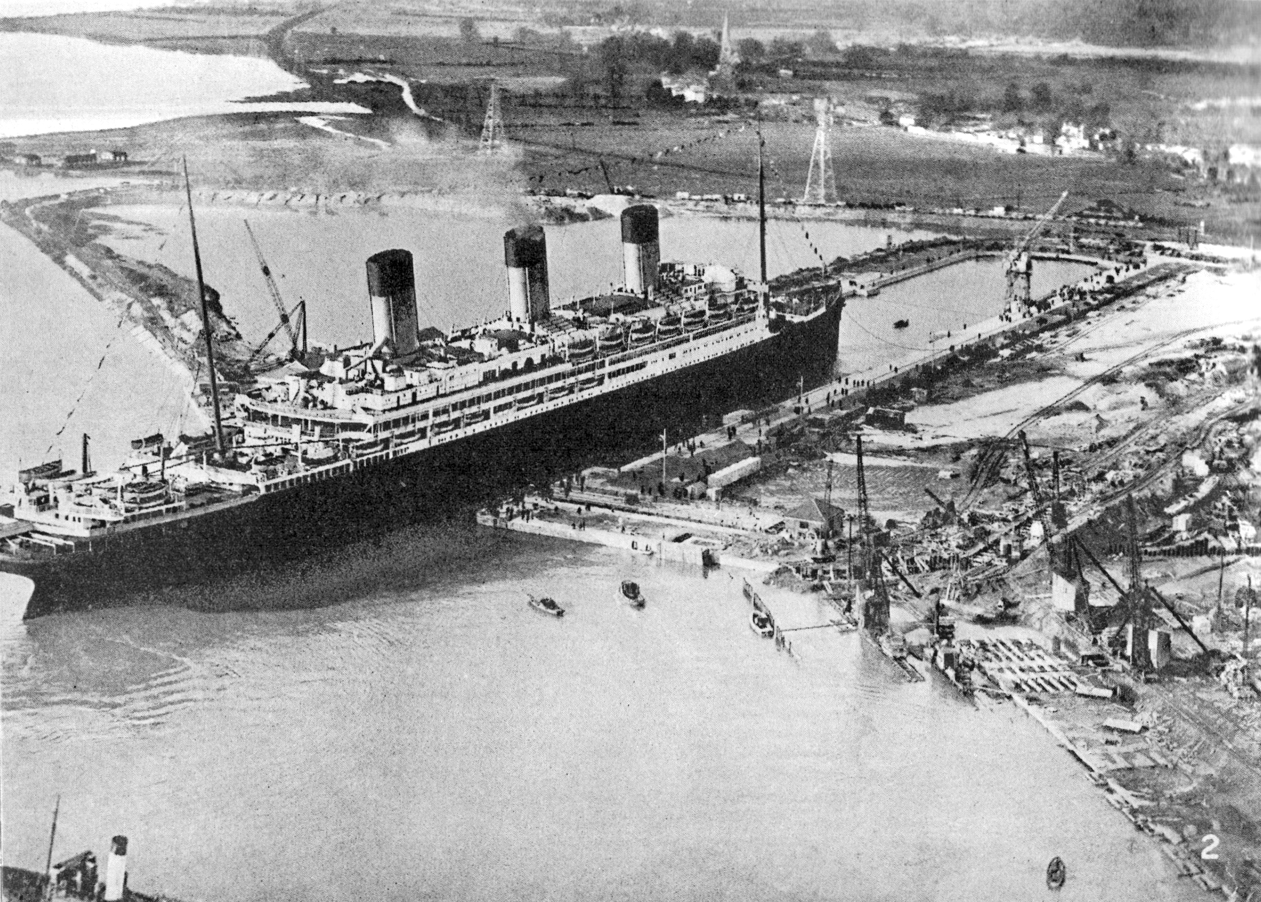 The White Star liner Majestic entering the world's largest graving dock at Southampton. Approximate date of photograph: 1934